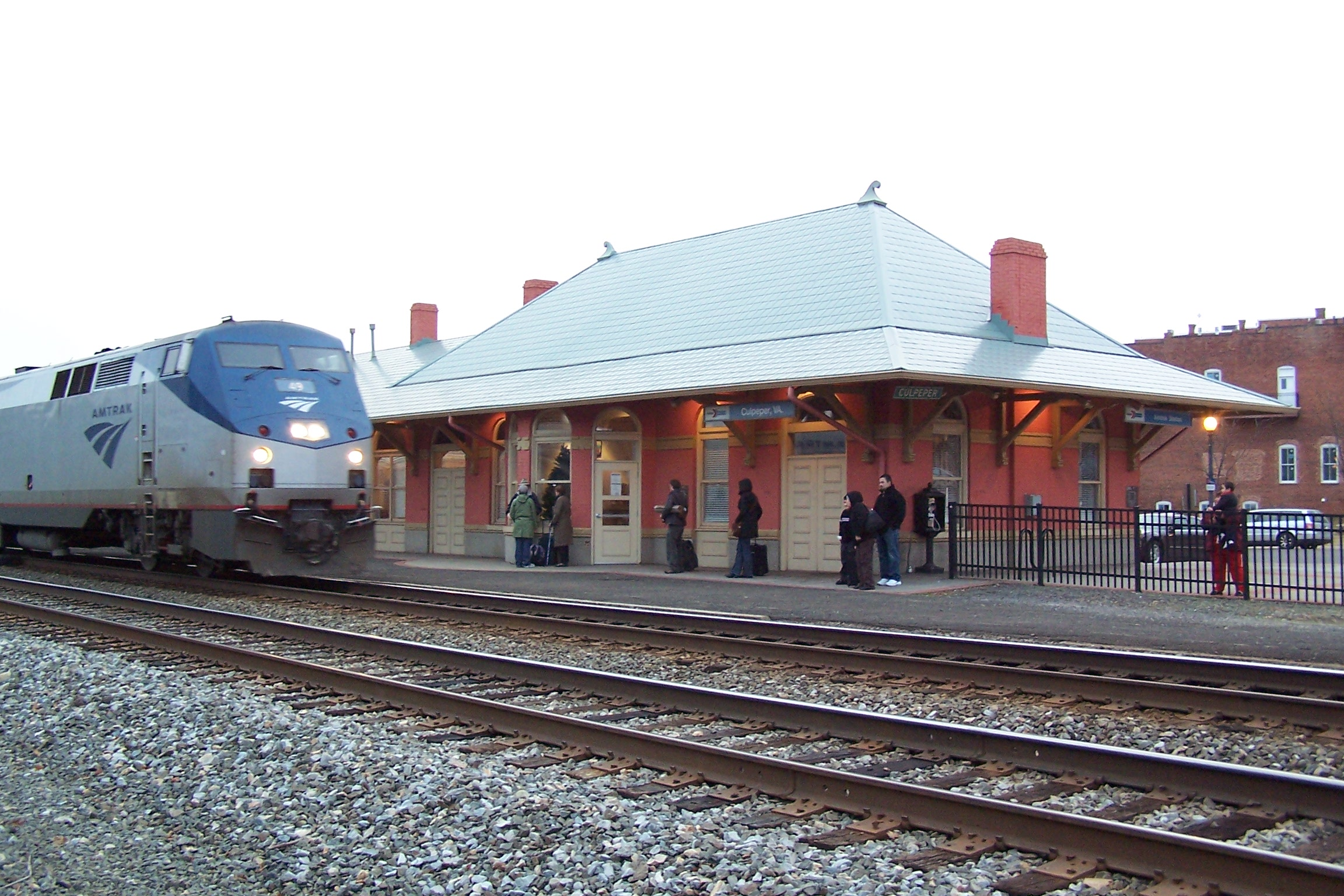 An Amtrak train on the Cardinal route pulls into the Culpeper station in Culpeper, Virginia.